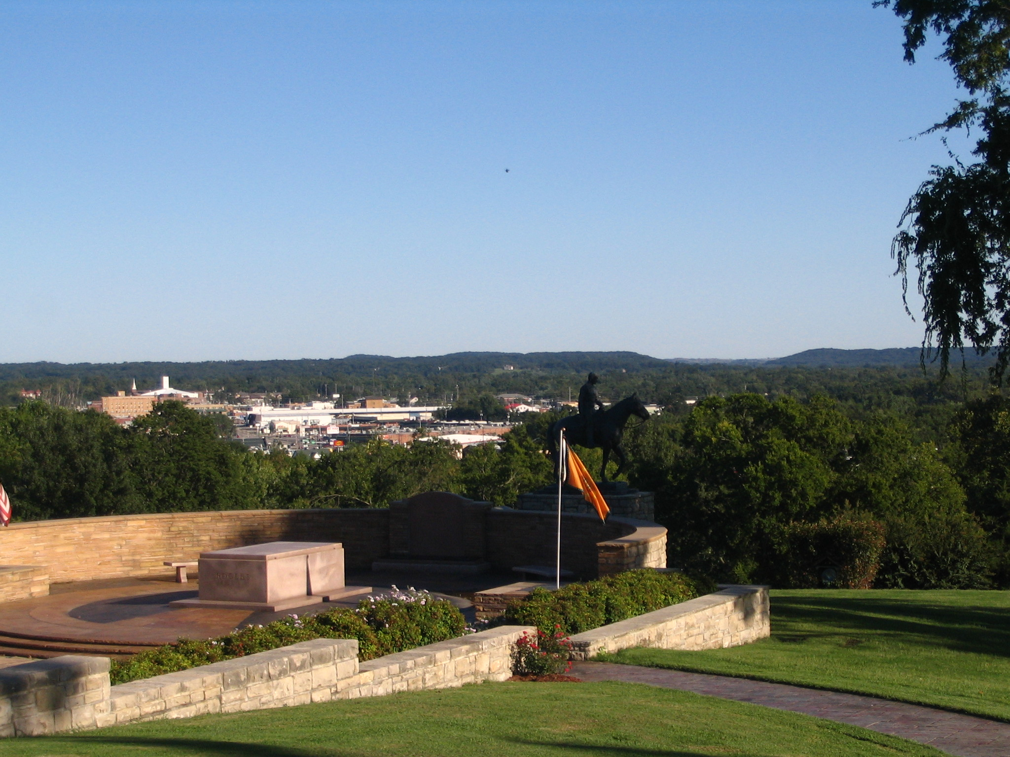 view of Claremore from the back side of the museum